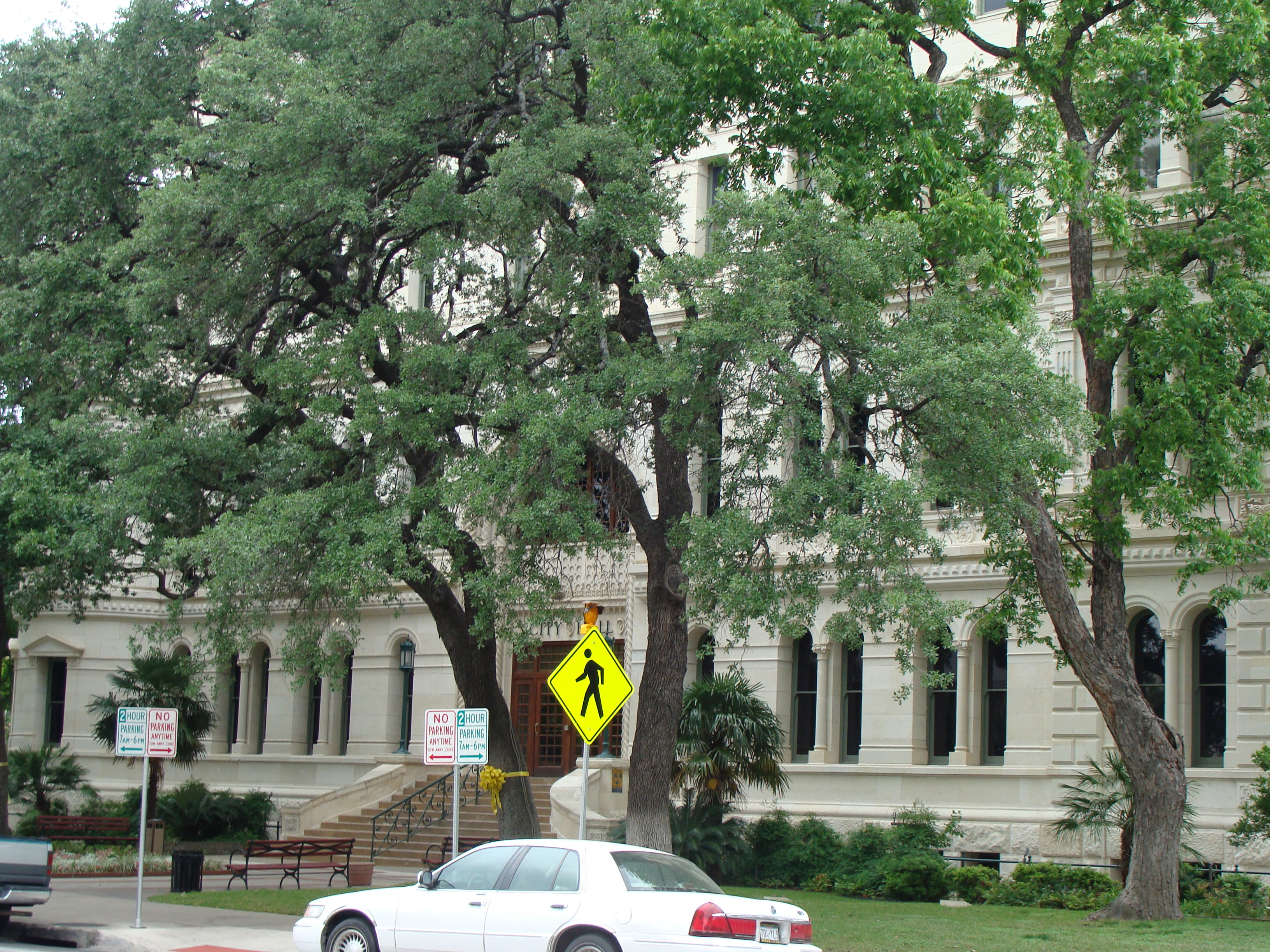 City Hall, San Antonio, Texas, United States. (Image is titled incorrectly)